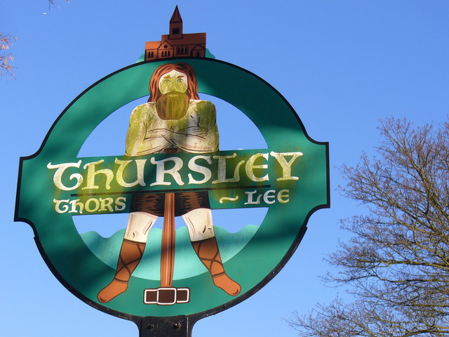 Thursley Village Sign. The village gets its name from "Thor's Field". The sign shows the church above Thor holding his hammer.